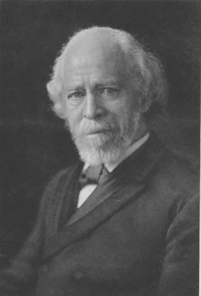 Charles Gordon Ames 12.5 x 8.3 cm Photograph 81.11